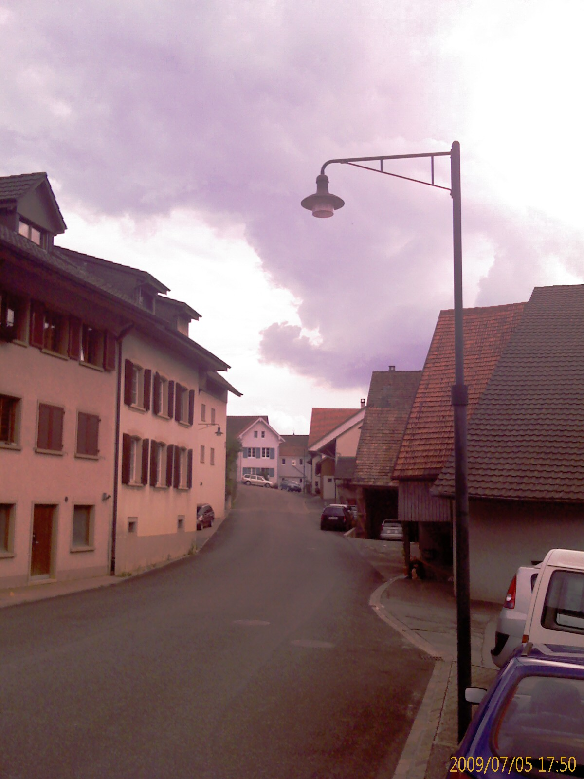 Street en Rickenbach, canton of Basel-Country, SwitzerlandEsperanto: Strato en Rickenbach, Kantono Bazelo Kampara, Svislando